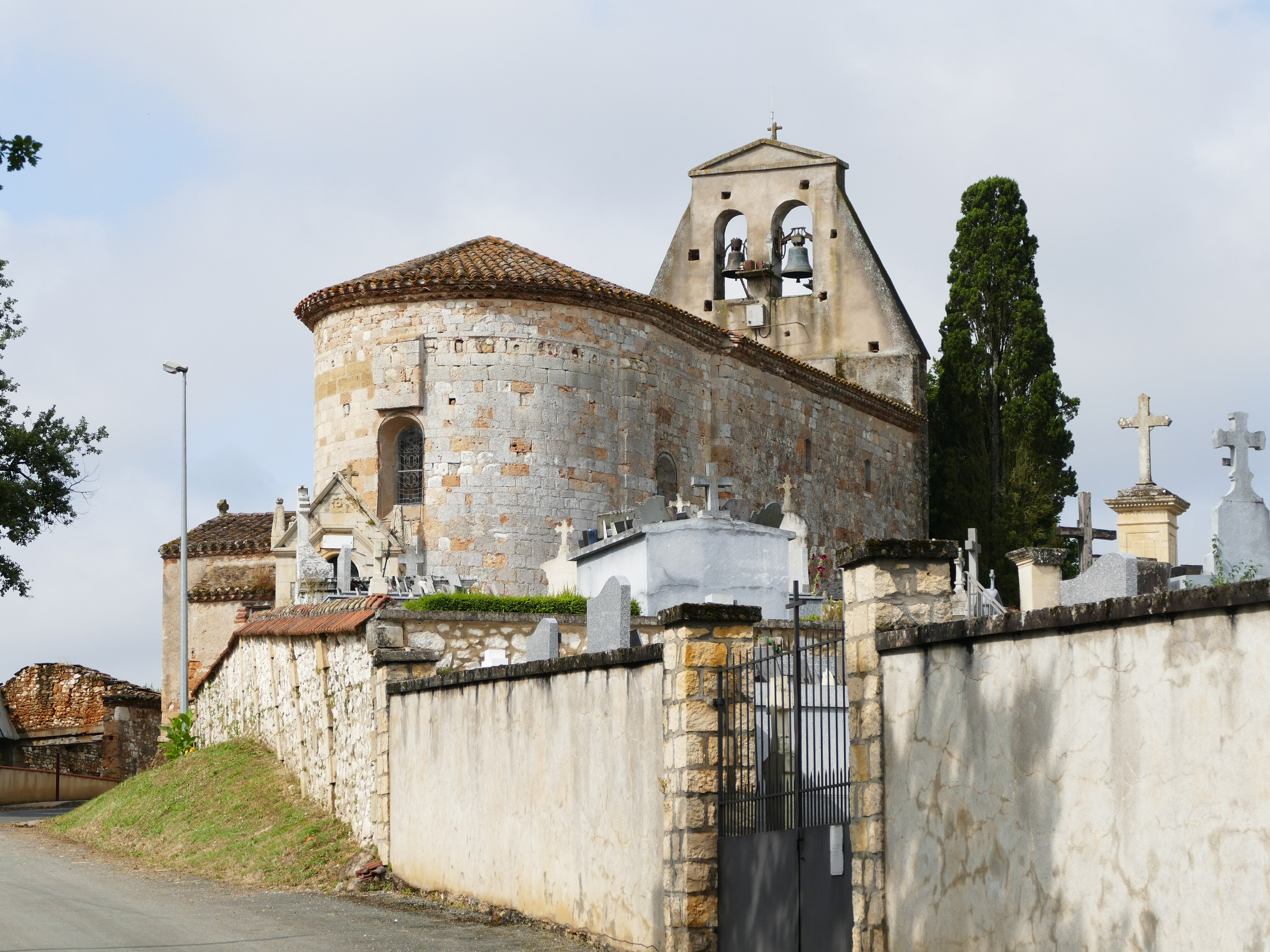 Saint-Peter's church in Condezaygues (Lot-et-Garonne, Aquitaine, France).